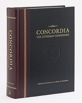 This image is permitted to be licensed under the GFDL by Concordia Publishing House.